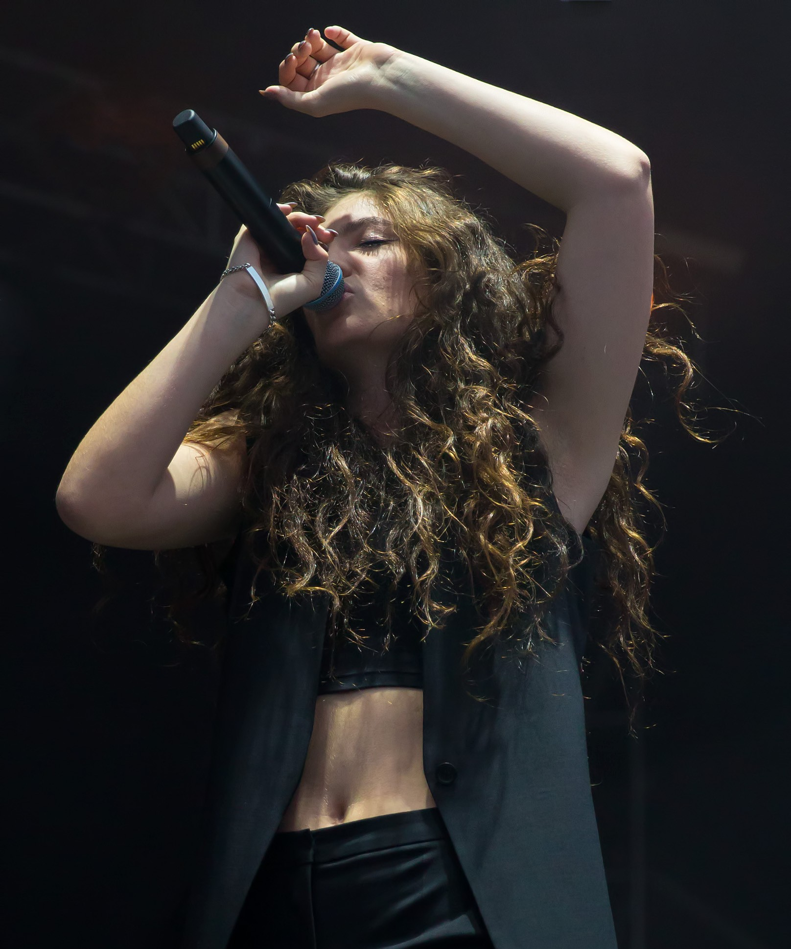 Lorde performing at Austin City Limits Music Festival (ACL) in Austin, Texas, 2014-10-12.